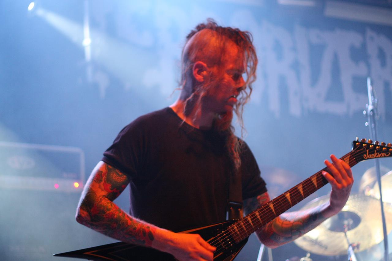 Matt Wilcock of british band Akercocke at Damnation festival 2009